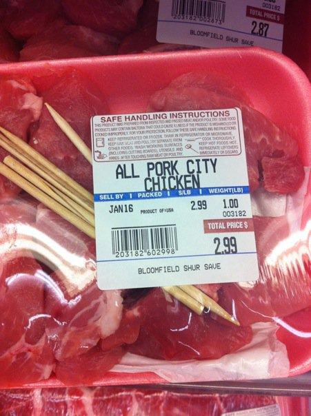 An example of City Chicken, found in Pittsburgh, PA